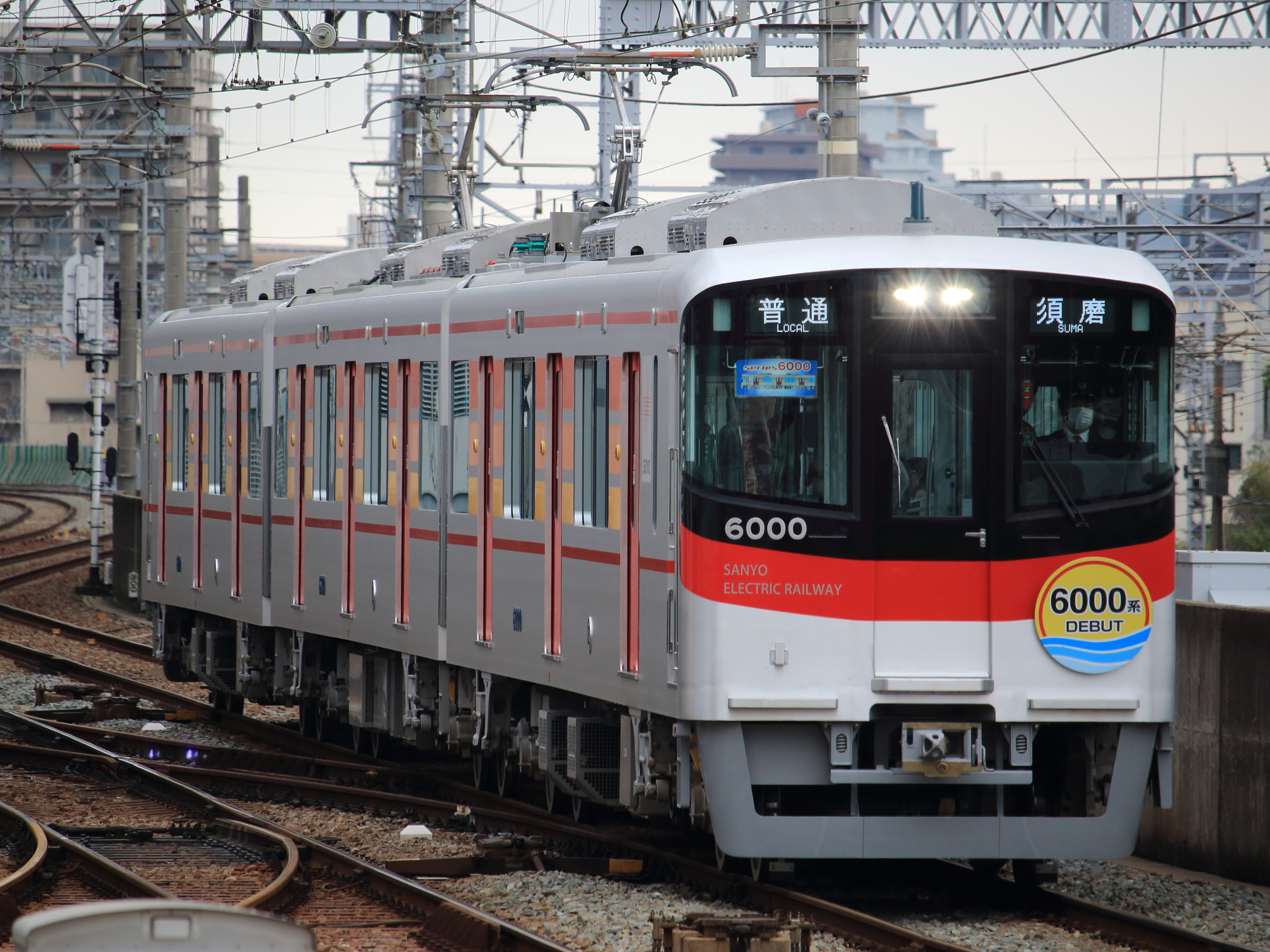 Sanyo Electric Railway 6000 series EMU set 6000 approaching Akashi Station